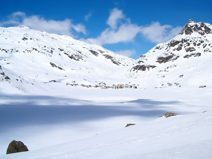 The village of Montespluga in Italy picture taken by user:Idéfix, march 2003